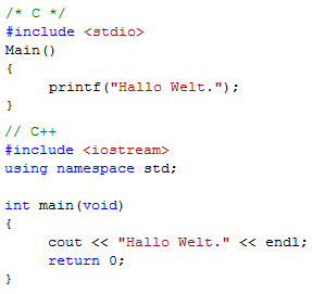 A "Hello World" program in C and in C++.